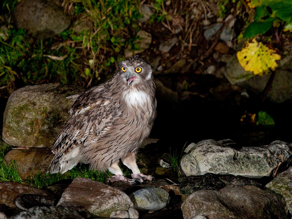 Blakiston's fish owl. Japan